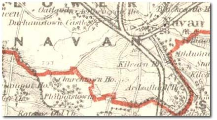 1885 Ordinance Survey Map of Bohermeen, showing Durhamstown Castle.